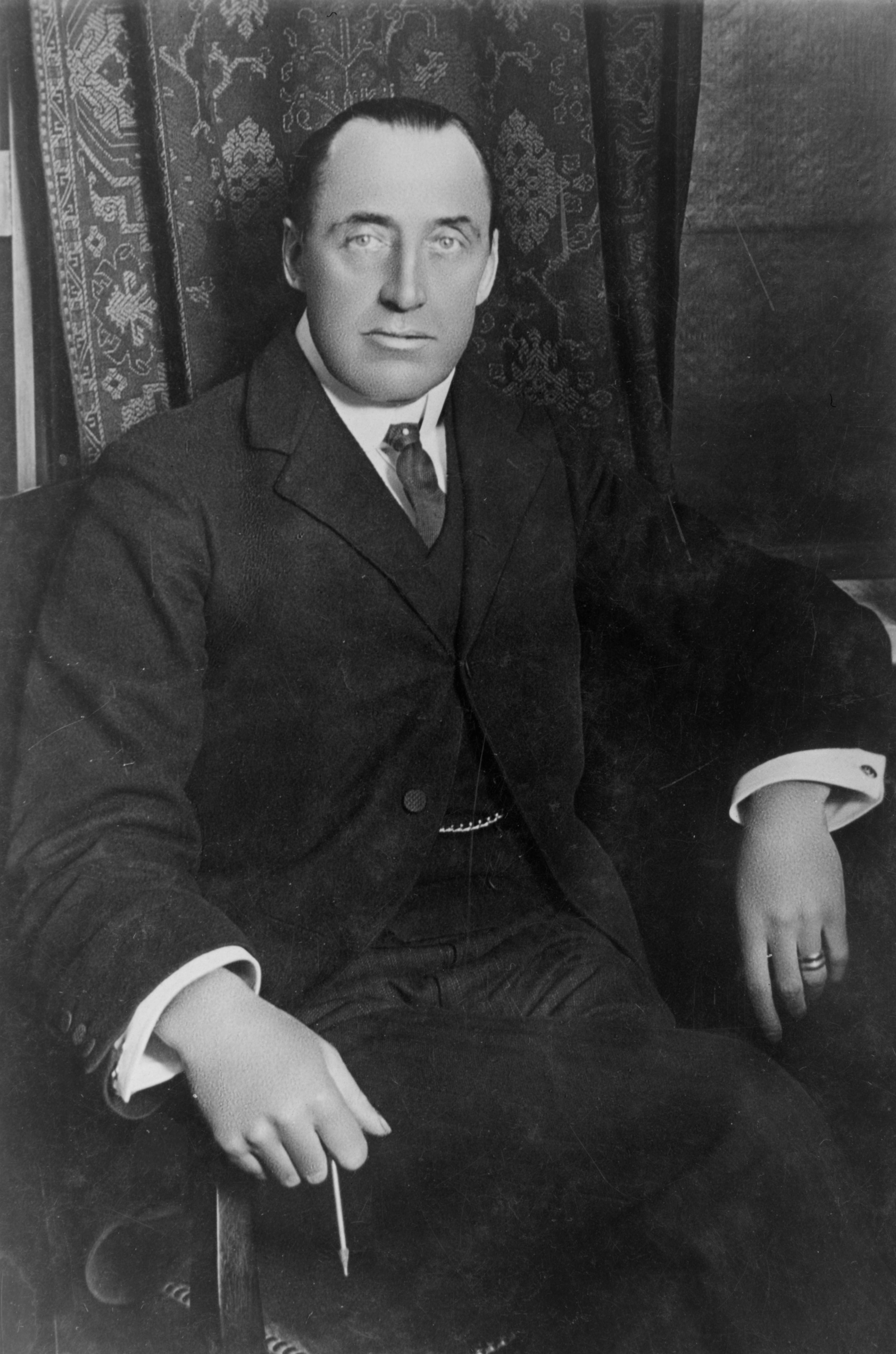 Edward Carson, three-quarter length portrait, seated, facing right.